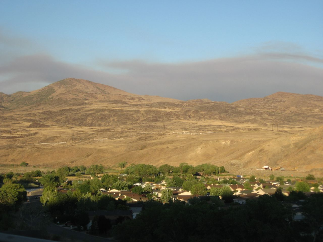 Lockwood, Nevada, is an unincorporated community in northern Storey County, Nevada, about 10 miles east of Reno, Nevada. Lockwood is part of the Reno-Sparks Metropolitan Area. The area of Lockwood is connected to Reno by a bridge that connects to Interstate 80, across the county line.